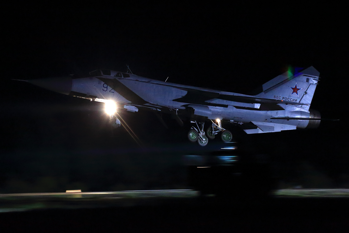 MiG-31 landing at Vladivostok Airport